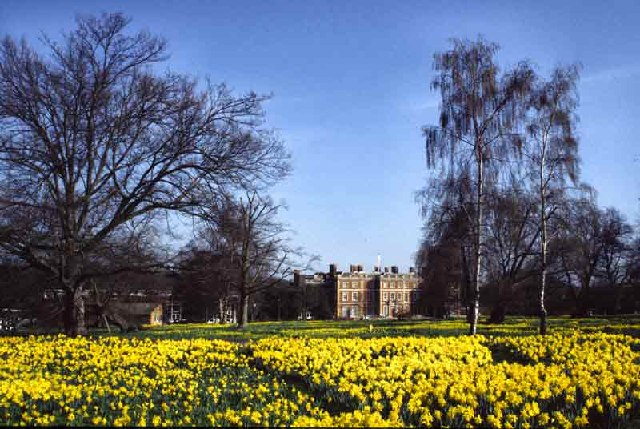 Trent Park House in Spring. Trent Park House is now used by Middlesex University. It used to be owned by the Sassoon Family and during WW2 was used to house German Officer Prisoners of War. There is always a magnificent display of Daffodils every Spring.